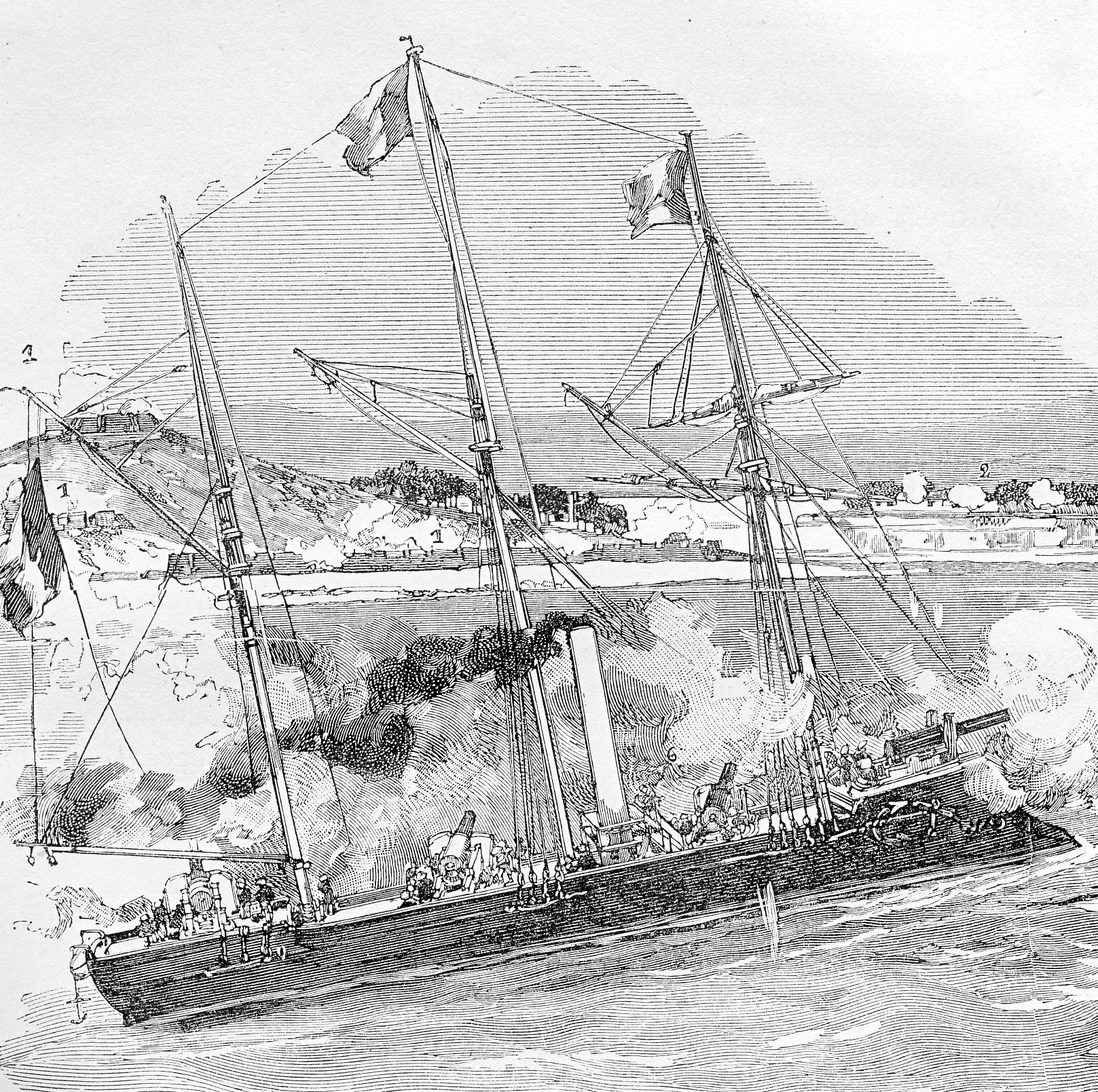 The gunboat Vipere forces the Thuan An barrage, 20 August 1883